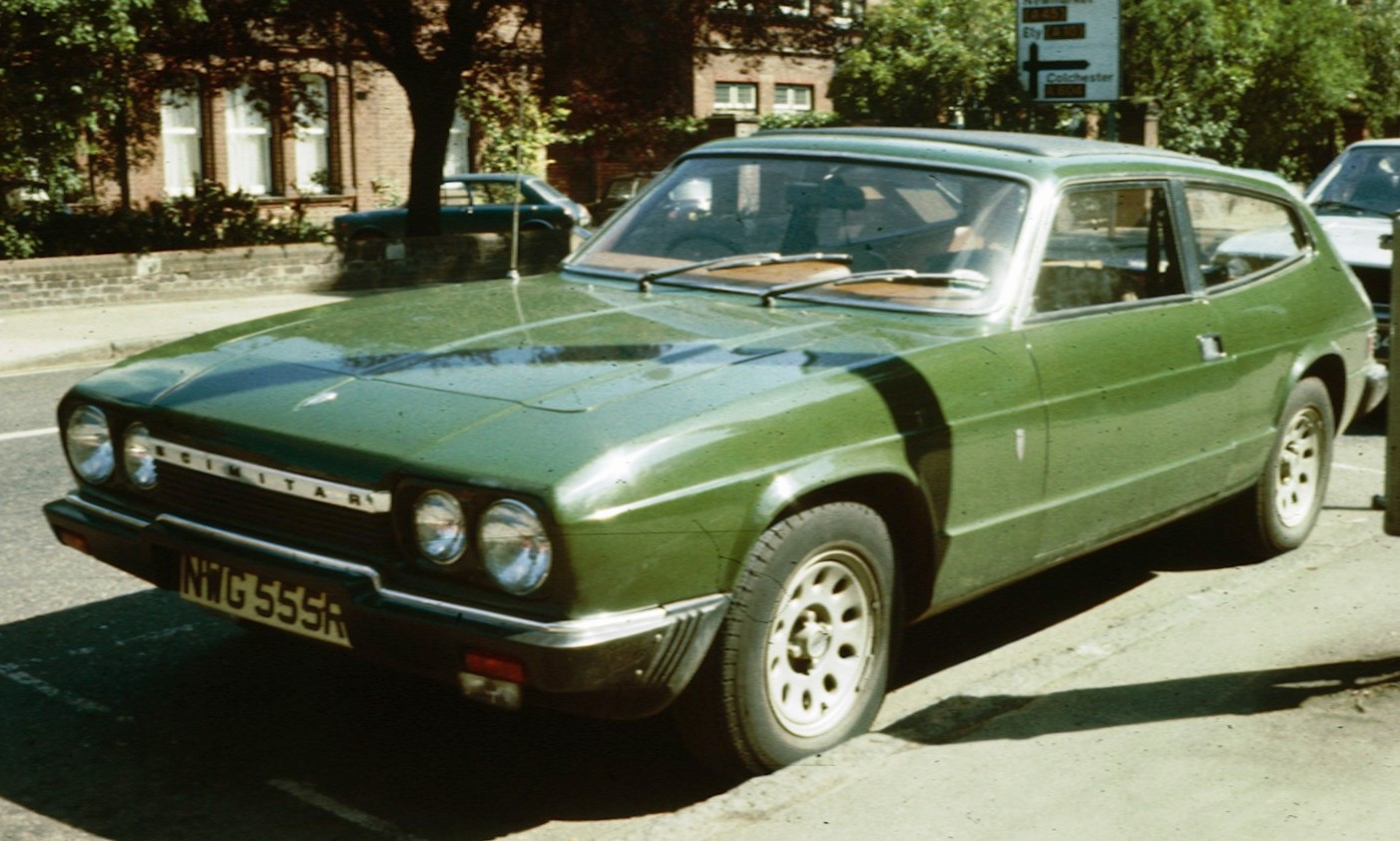 Reliant GTE front three quarters in Cambridge